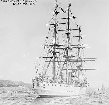 The "Presidente Sarmiento" of Argentina